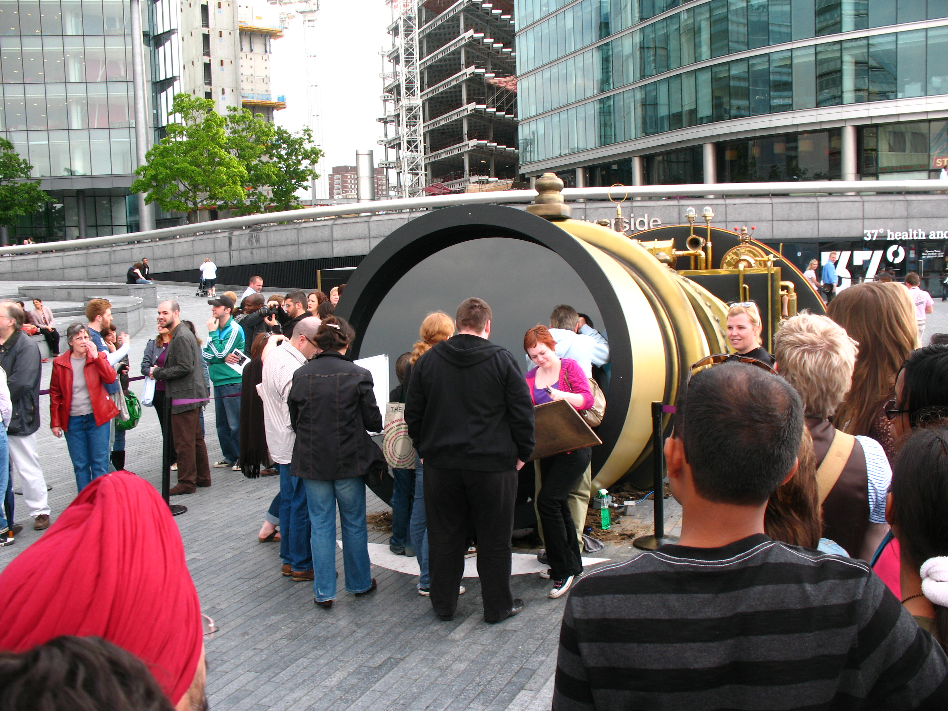 Telectroscope art installation in the City of London